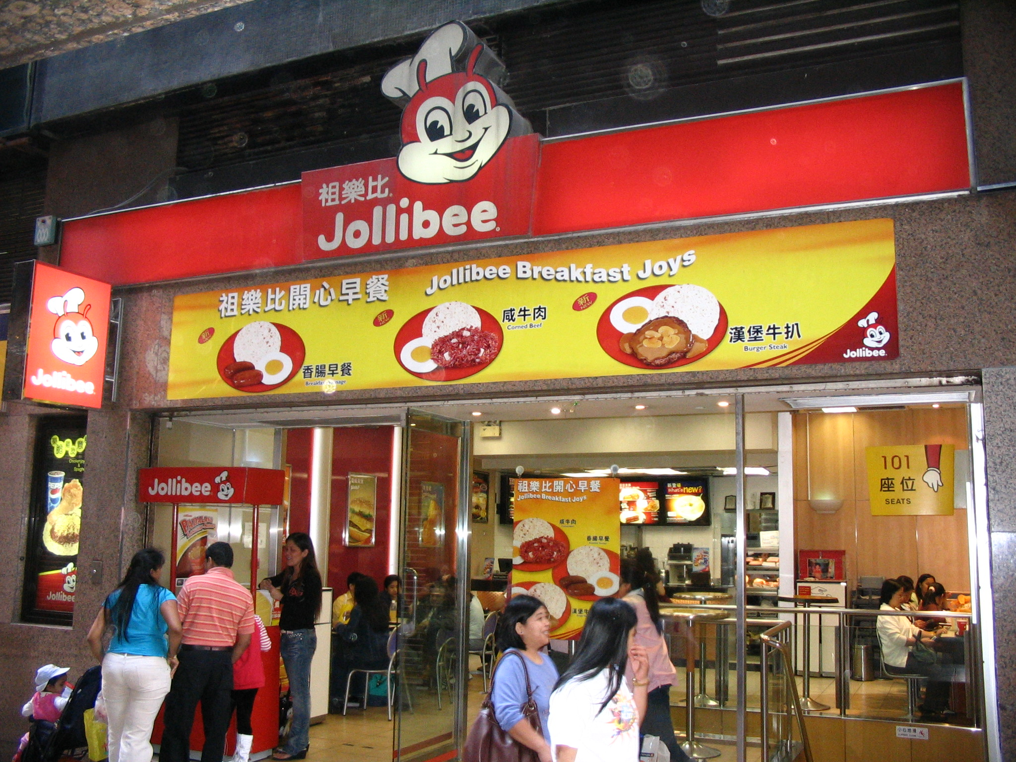 Photo of Jollibee at Central, Hong Kong